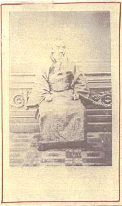 Urazoe Chōshō (1825 - 1883)